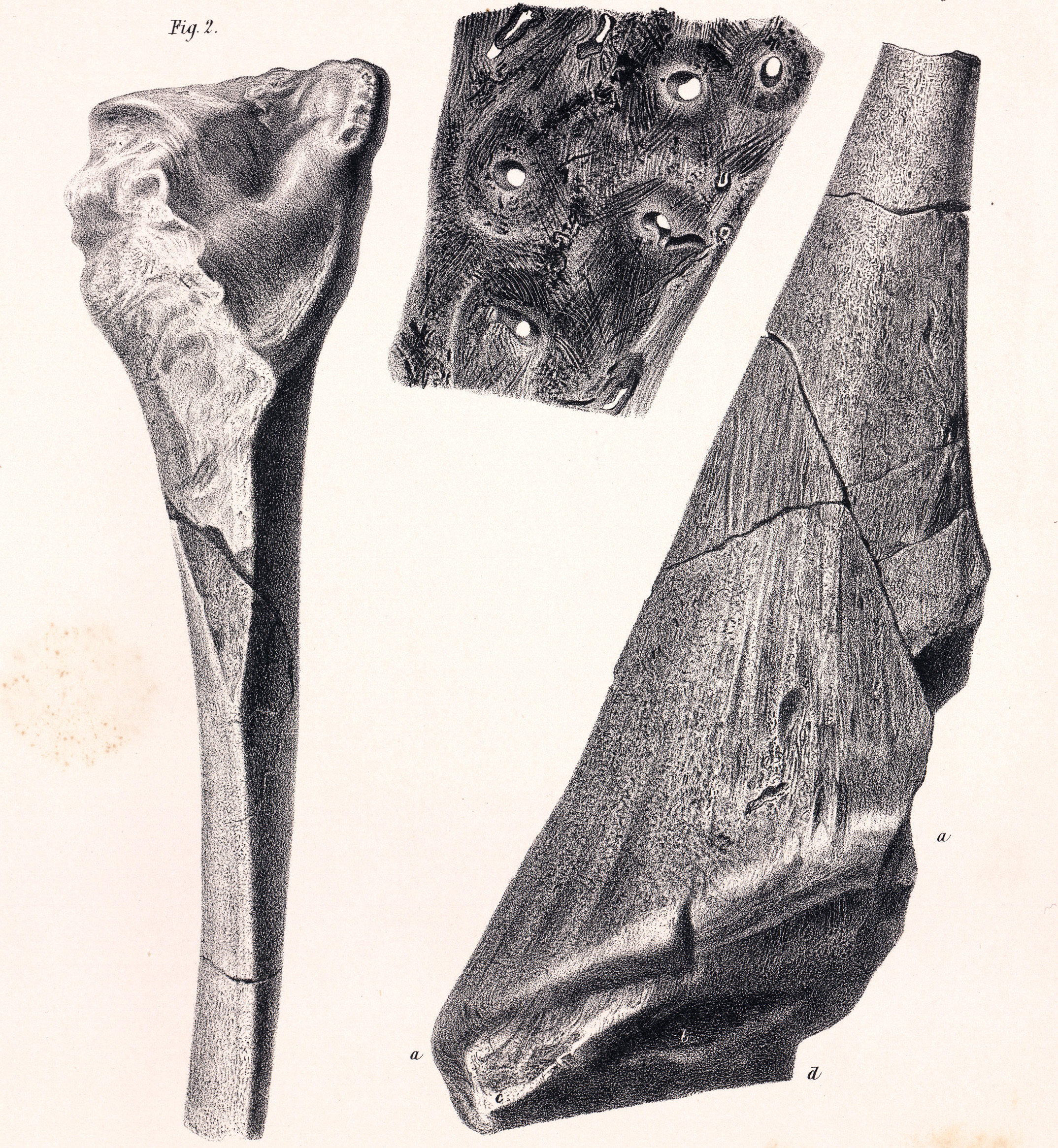 The osseous basis of a dermo-neural spine of the Hylæosaurus. Fig. 1. A section, highly magnified, of the osseous tissue. Fig. 2. Hinder border of the spine (reversed). Fig. 3. Side view of the spine. From the Wealden of Tilgate Forest, Sussex. In the British Museum.